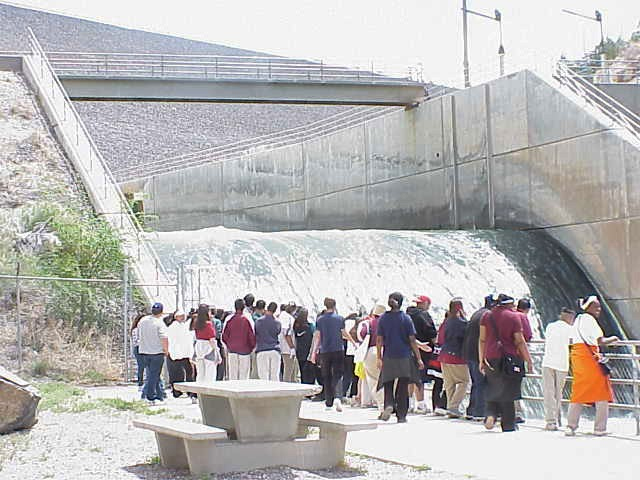 Outlet of the Cochiti Dam on the Rio Grande River, New Mexico, USA. D